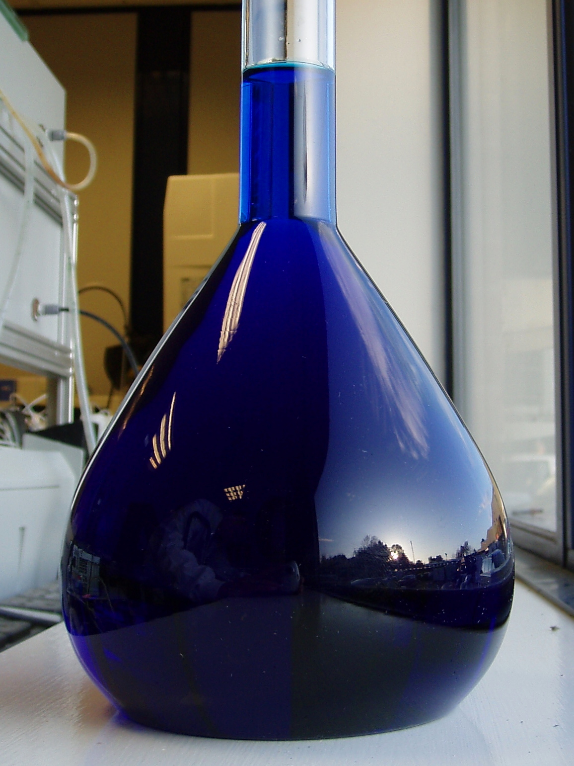 A volumetric flask filled with methylene blue